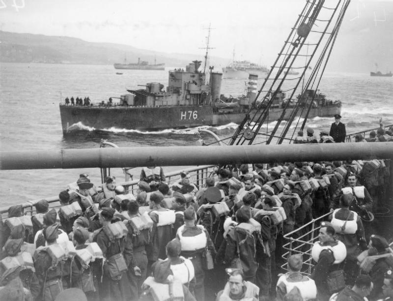 HMS Fury passing the Orient Steam Navigation Co troopship Oronsay off Gourock on the Firth of Clyde. Other ships are in the background. Troops aboard Oronsay are at their boat stations wearing lifejackets for boat drill. They are from various units of 61st Division and will soon be heading for Norway.